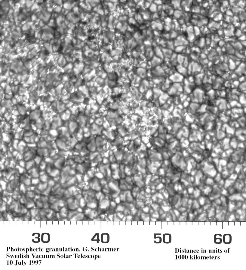 Granules are small (about 1000 km across) cellular features that cover the entire Sun except for those areas covered by sunspots. These features are the tops of convection cells where hot fluid rises up from the interior in the bright areas, spreads out across the surface, cools and then sinks inward along the dark lanes. Individual granules last for only about 20 minutes. The granulation pattern is continually evolving as old granules are pushed aside by newly emerging ones. The flow within the granules can reach supersonic speeds of more than 7 km/s (15,000 mph) and produce sonic "booms" and other noise that generates waves on the Sun's surface.